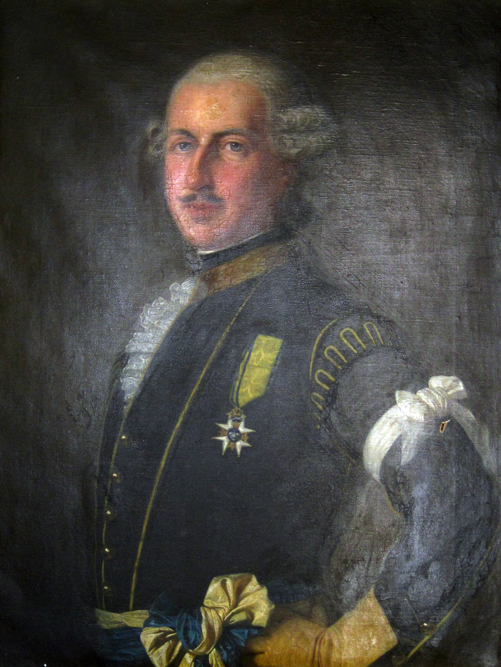 Portrait of Philip von Platen (1732-1805), Swedish baron and field marshall.